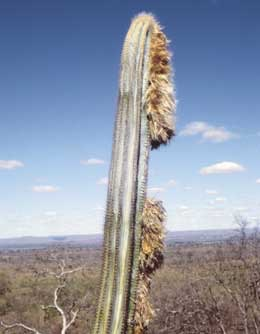 Adult plant. W Minas Gerais, Brasil